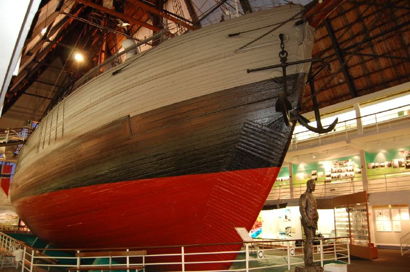 The bow of the ship Fram in museum.